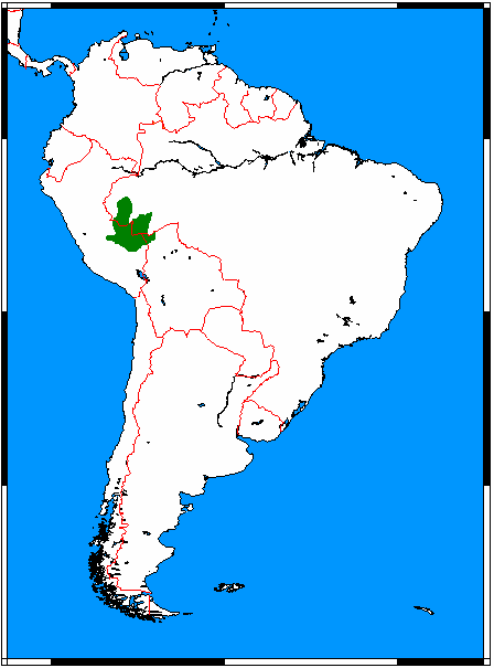 Emperor Tamarin (Saguinus imperator), range map, depending on the range map at IUCN red list